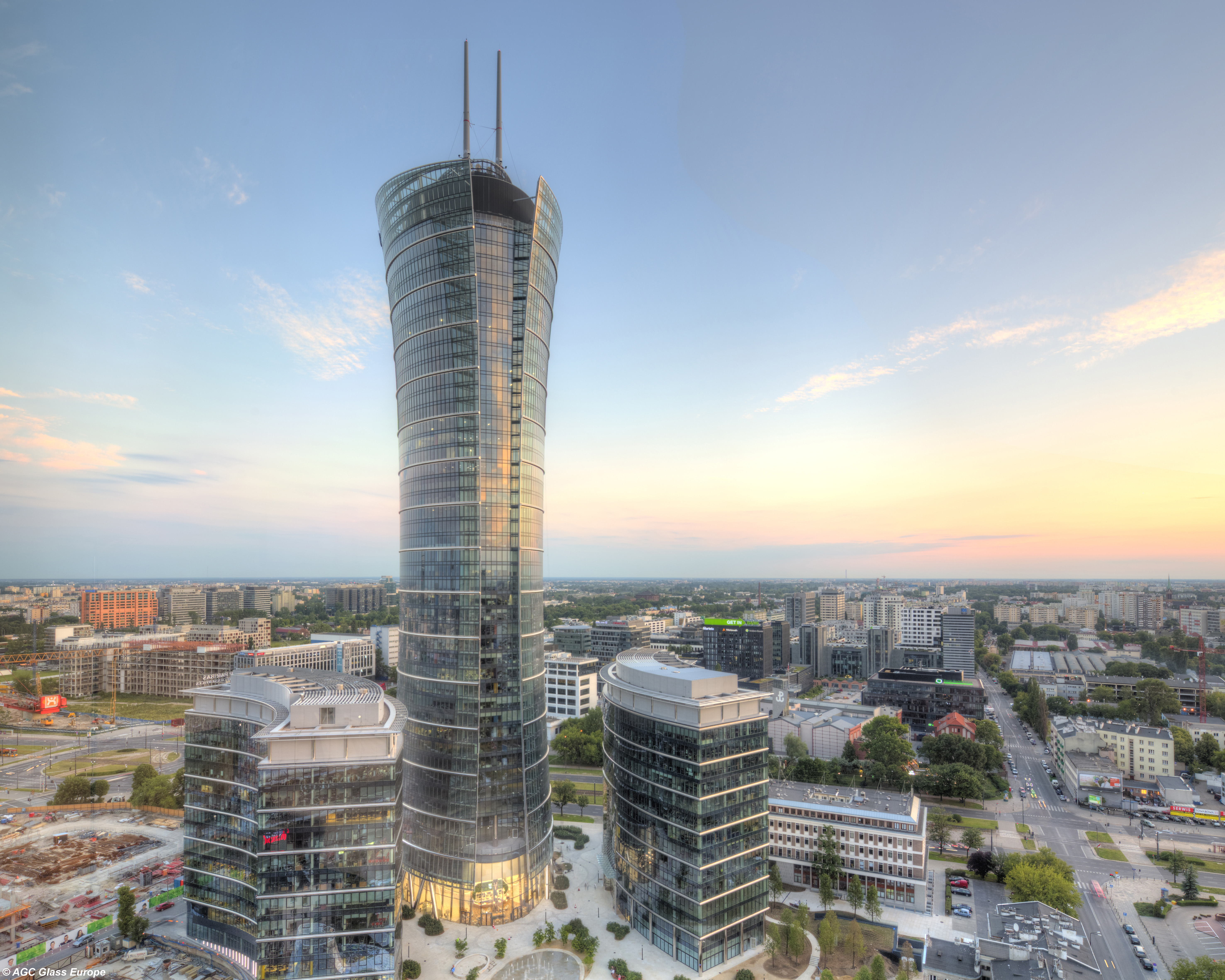 1The Warsaw Spire is a complex of Neomodern office buildings in Warsaw, Poland constructed by the Belgian real estate developer Ghelamco. It consists of a 220-metre main tower with a hyperboloid glass facade, Warsaw Spire A, and two 55-metre auxiliary buildings, Warsaw Spire B and C. The main tower is the second tallest building in Warsaw and also the second highest in Poland.